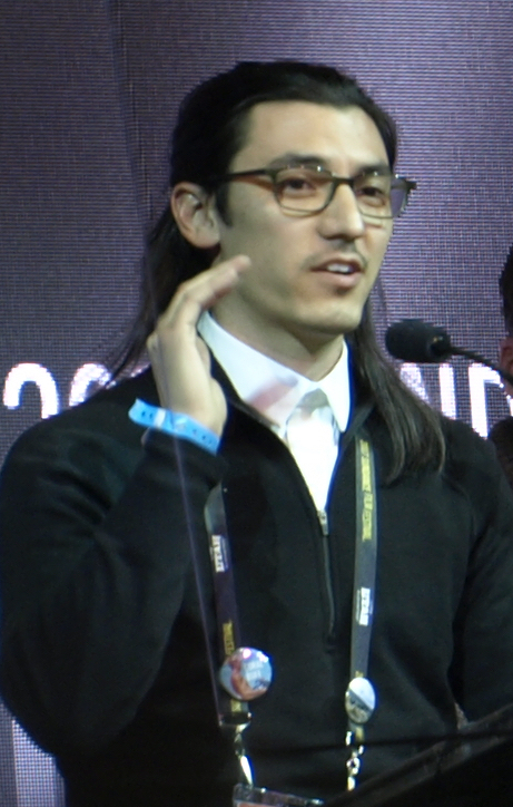 "Chasing Coral" U.S. Documentary Audience Award at Sundance 2017, Park City UT